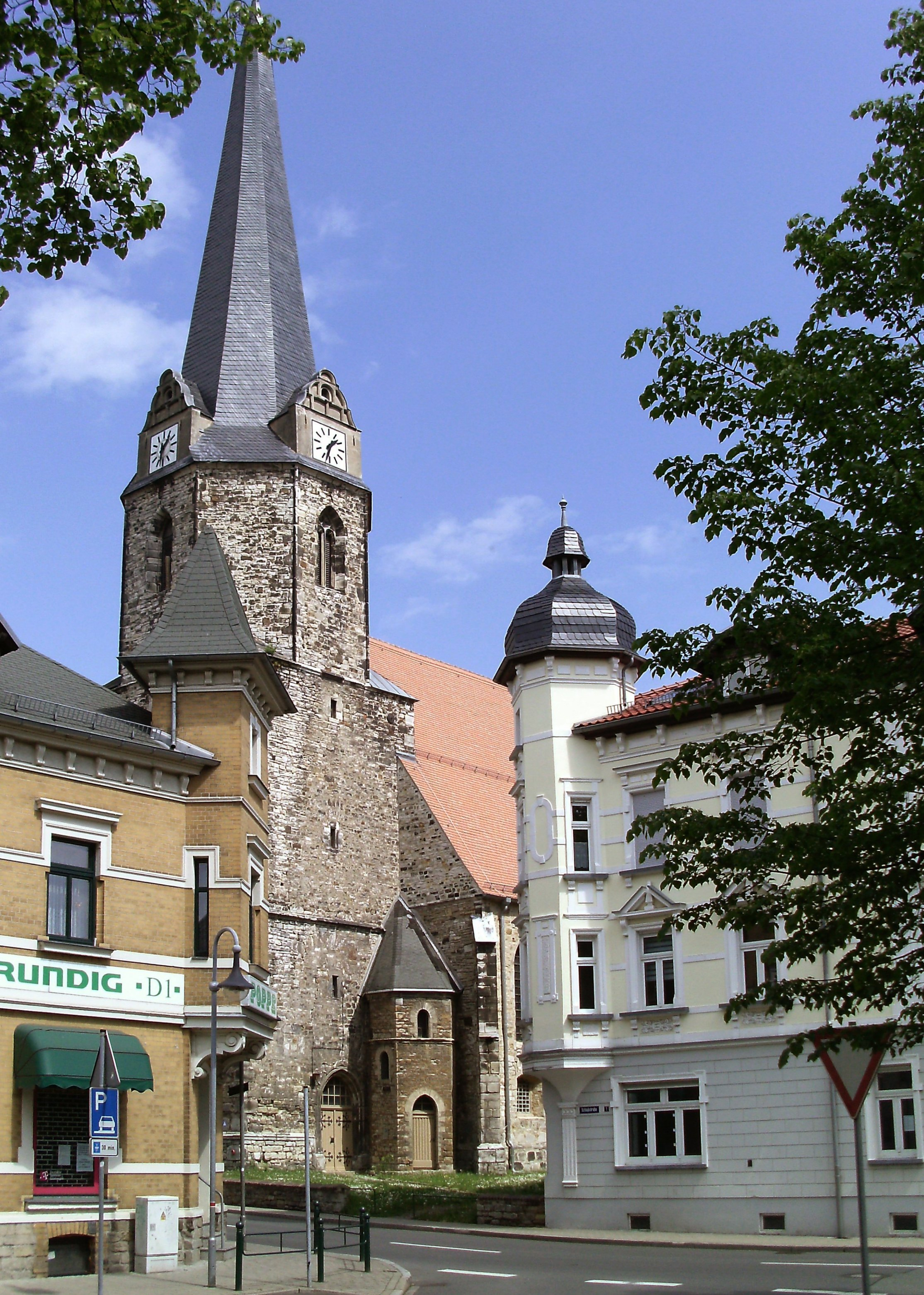 St. Vitus Church in Lützen (district of Burgenlandkreis, Saxony-Anhalt) from the south-west